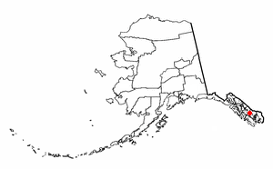 Adapted from Wikipedia's AK borough maps by Seth Ilys.